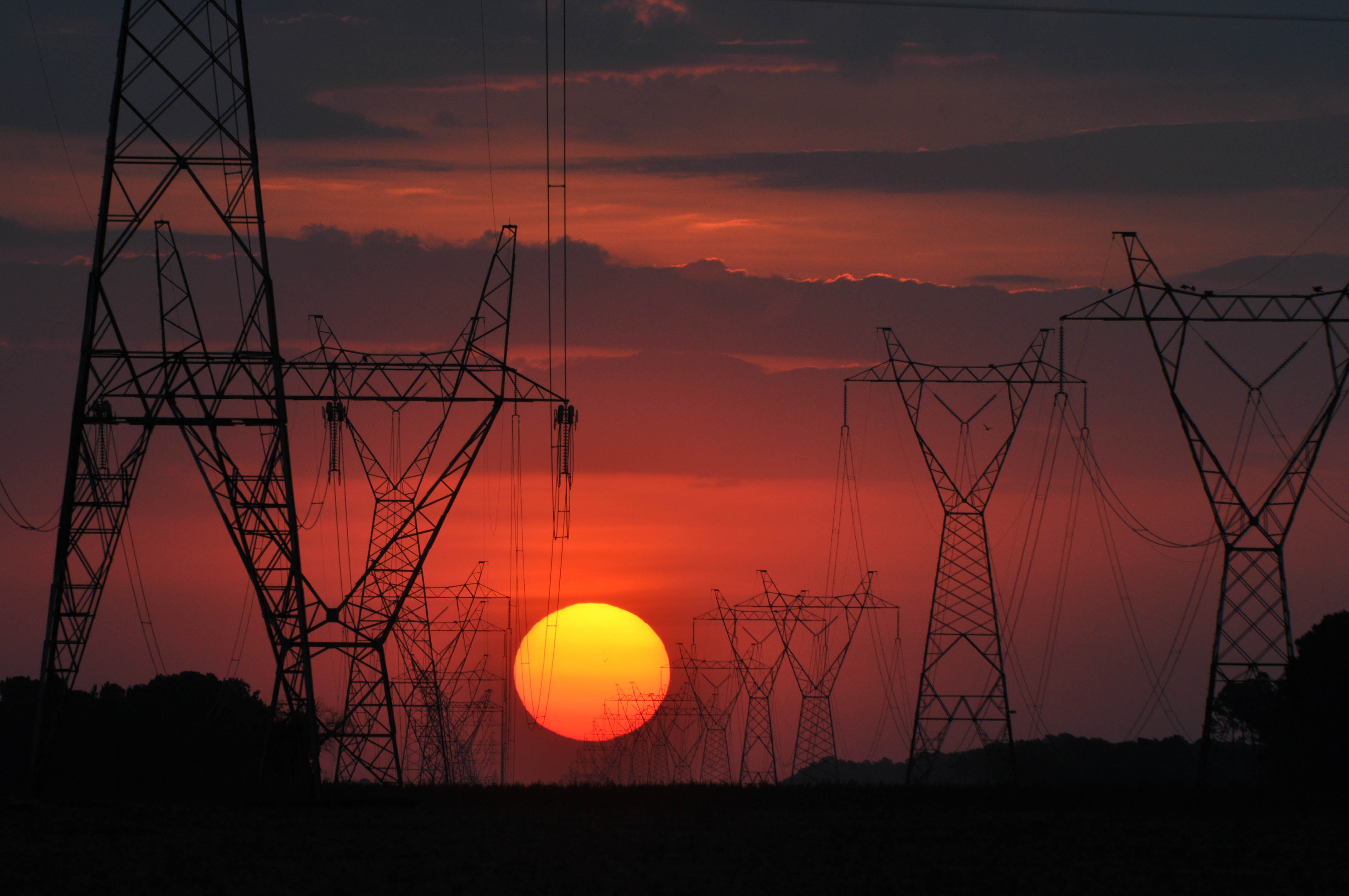 Buffer zone of the Serra da Canastra National Park